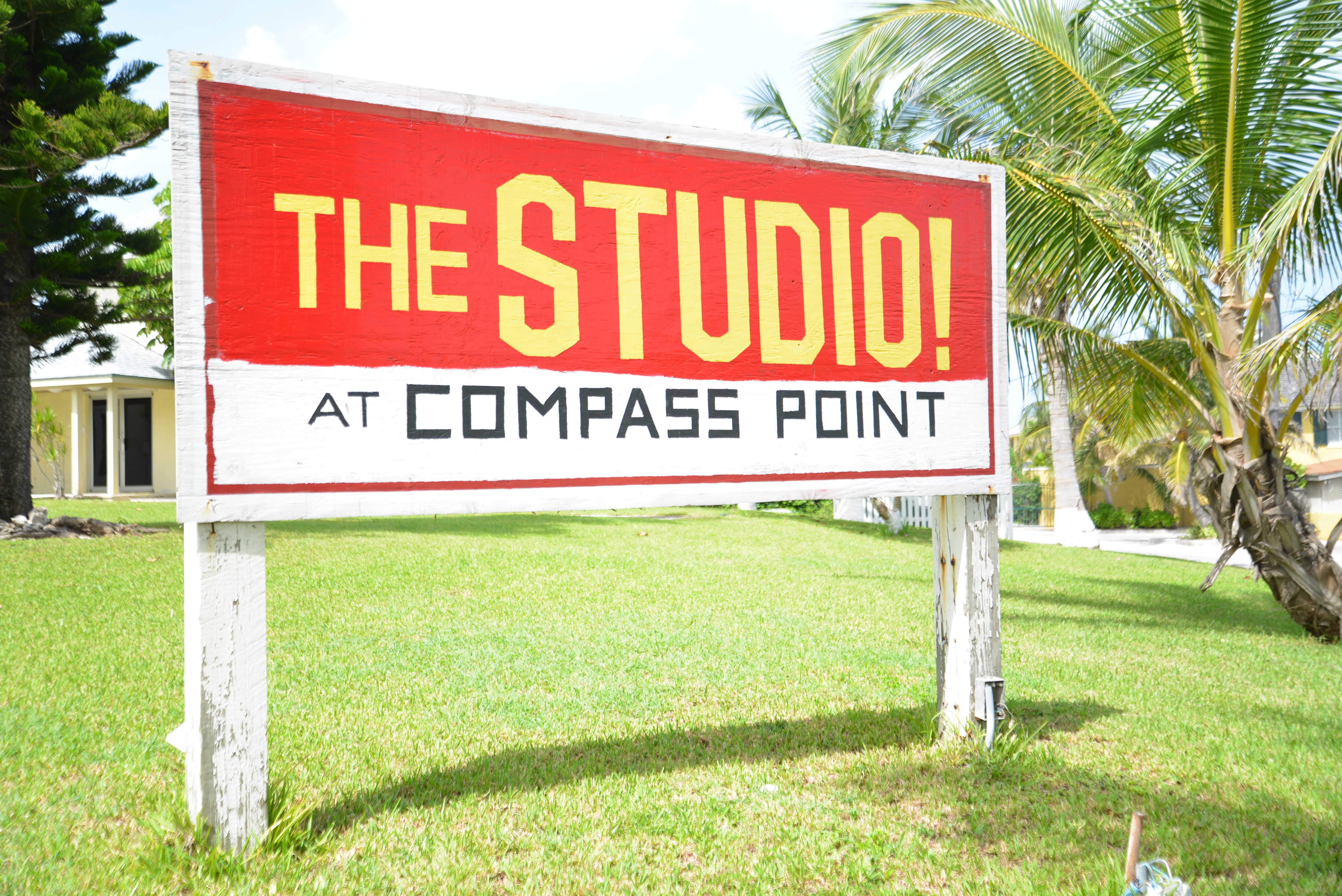 Famous recording studio in Nassau